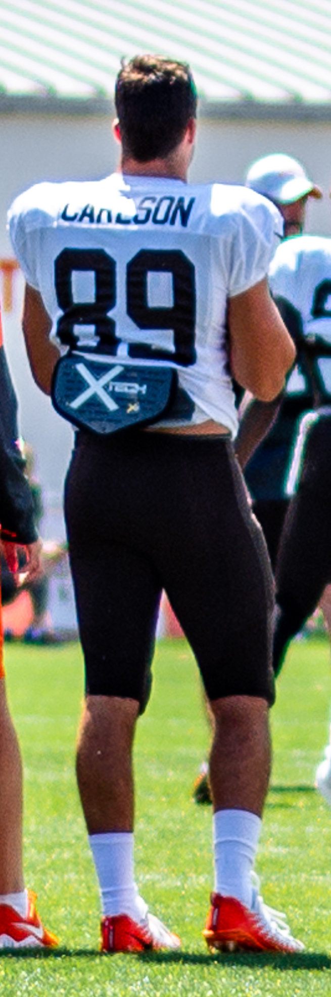 2019 Cleveland Browns Training Camp